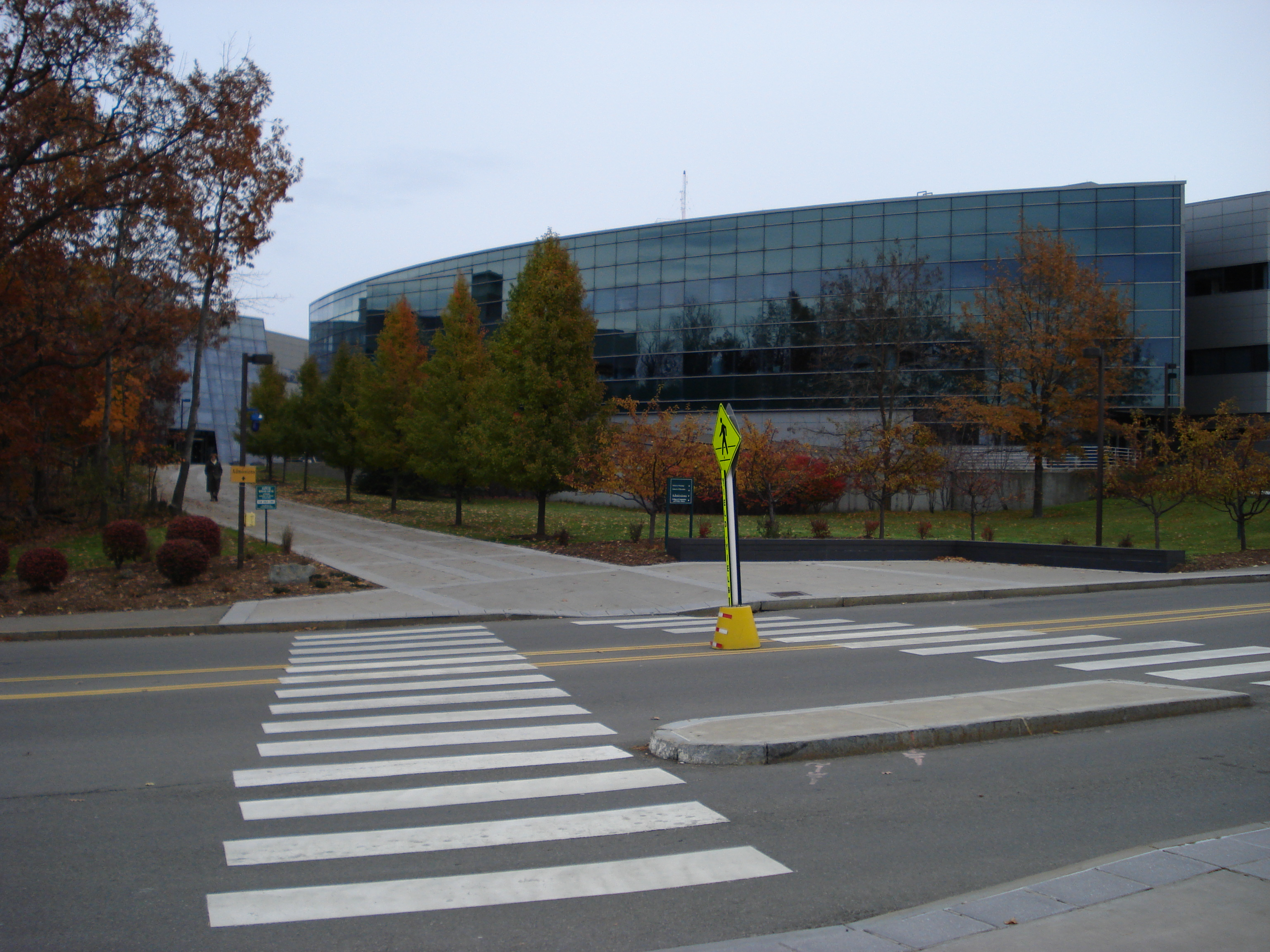 Binghamton University Campus, School of Management Bldg